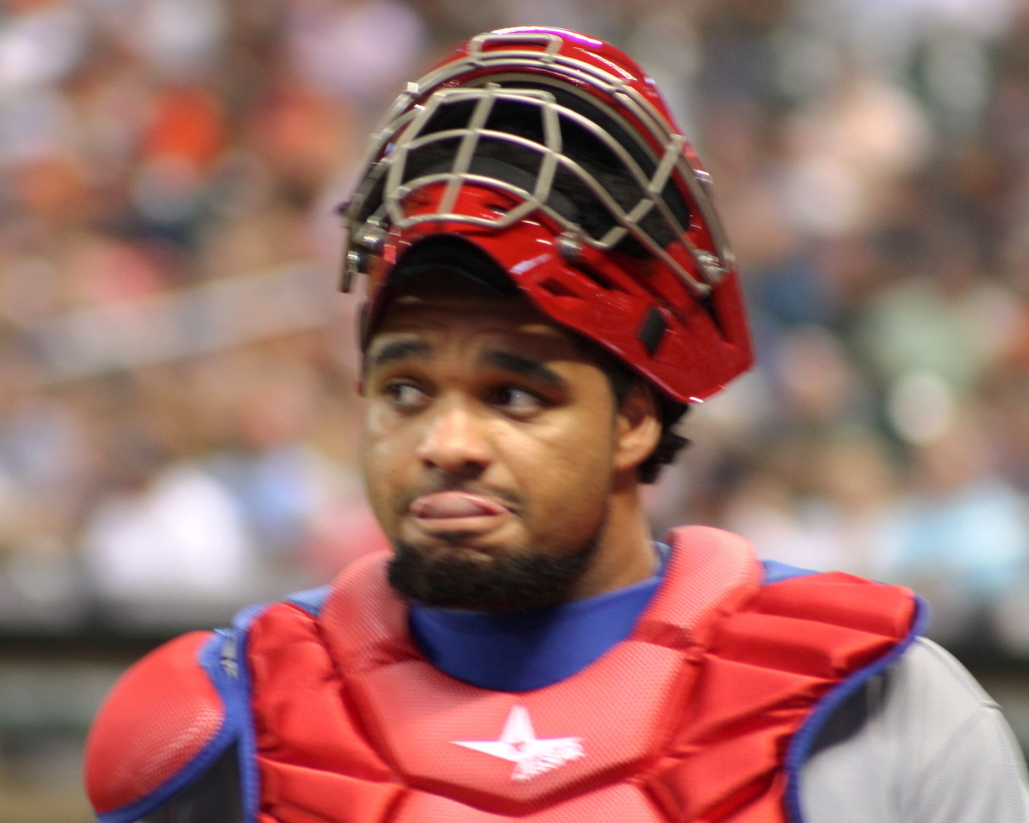 Professional baseball catcher Tomás Telis at Minute Maid Park on August 30, 2014.